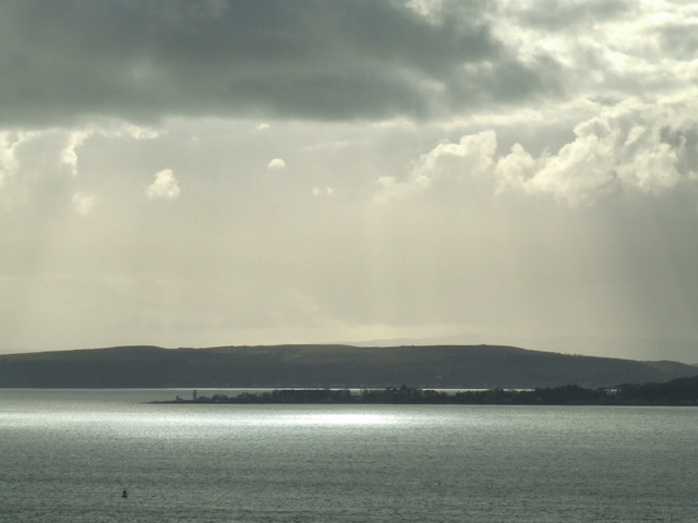 Toward Point